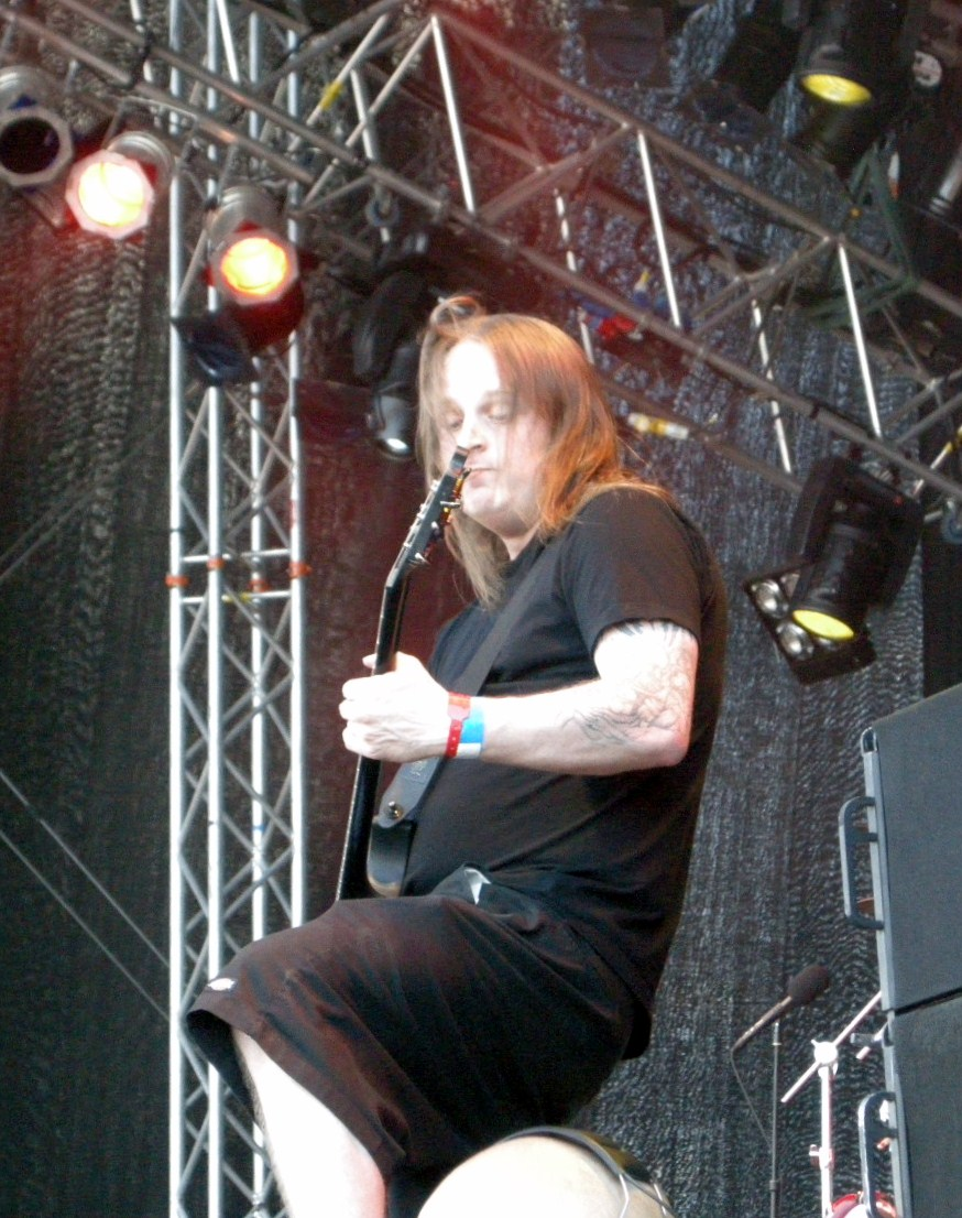 Anders Björler, guitar player of Swedish thrash metal band The Haunted at Metaltown 2009